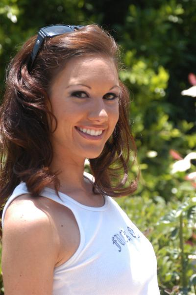 Taylor Rain